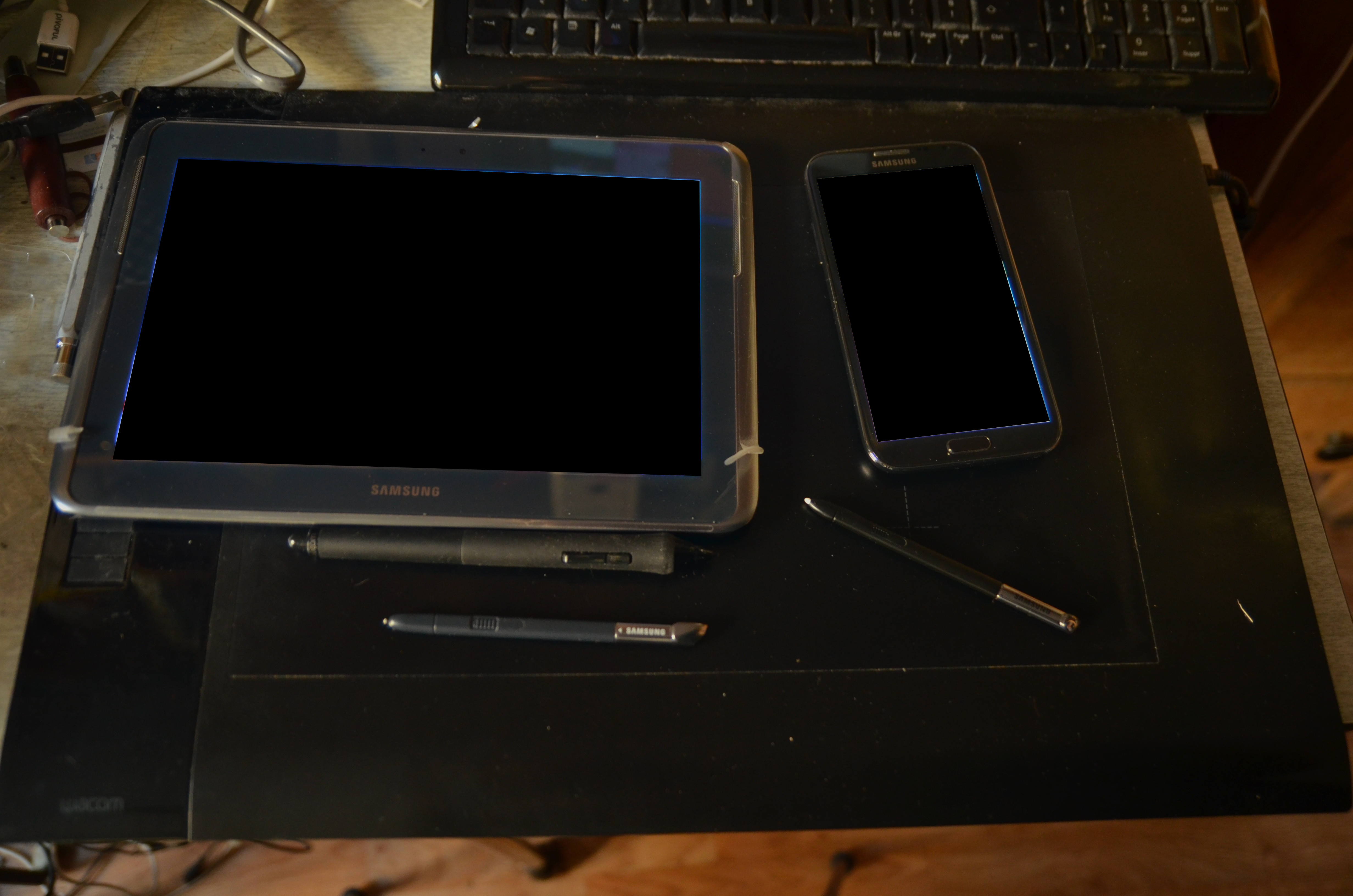 Wacom Intuos4, Samsung Galaxy Note II and Galaxy Note 10.1 and their respective stylus. They all use Wacom technology. Devices screens are hidden for copyright reasons and conflict with Wikipedia rules.